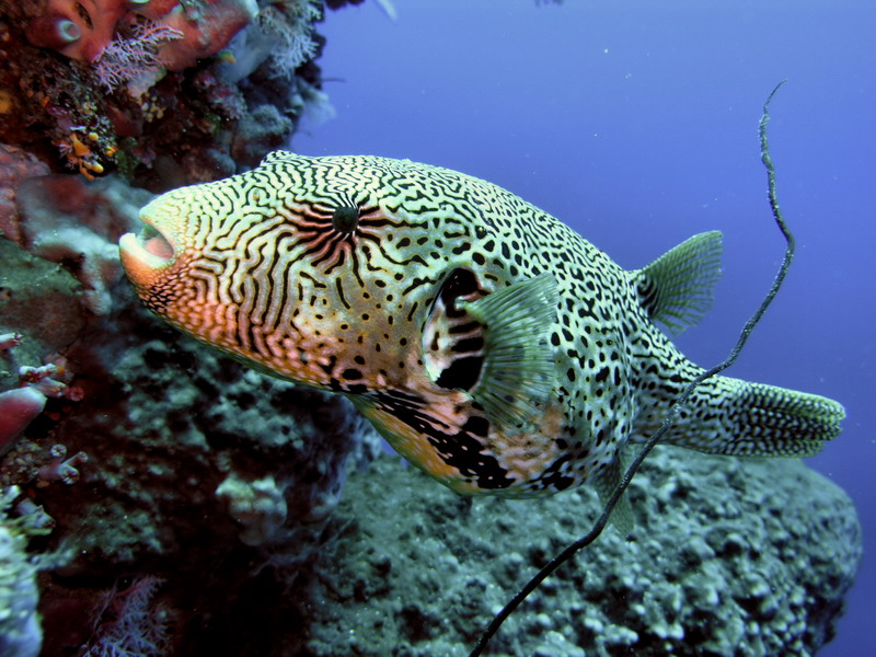 Image of a Map pufferfish. Arothron mappa. Colour corrected